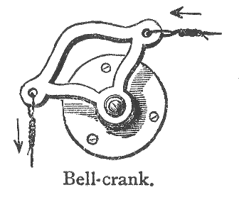 Illustration from 1908 Chambers's Twentieth Century Dictionary. Bell-crank, n. a rectangular lever in the form of a crank, used for changing the direction of bell-wires.